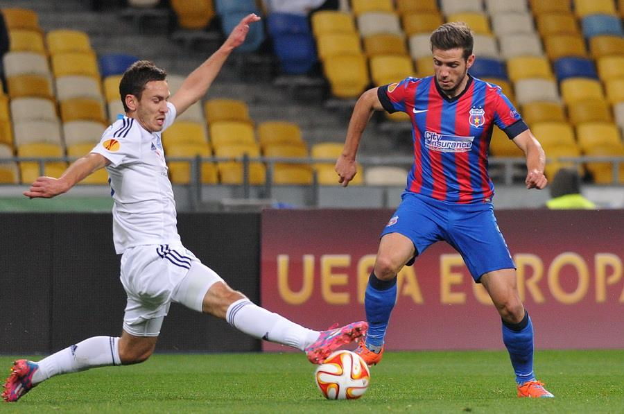 Alexandru Chipciu at the match Dynamo Kiev 3-1 Steaua Bucharest, on 3 October 2014